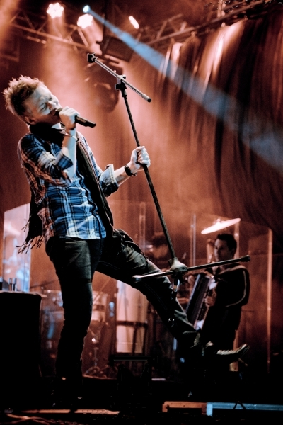 Michel singing Ai Se Eu Te Pego in Quatá - SP